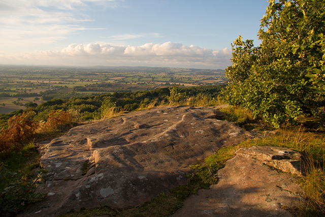 Stanner Nab, Peckforton Hills, at sunset